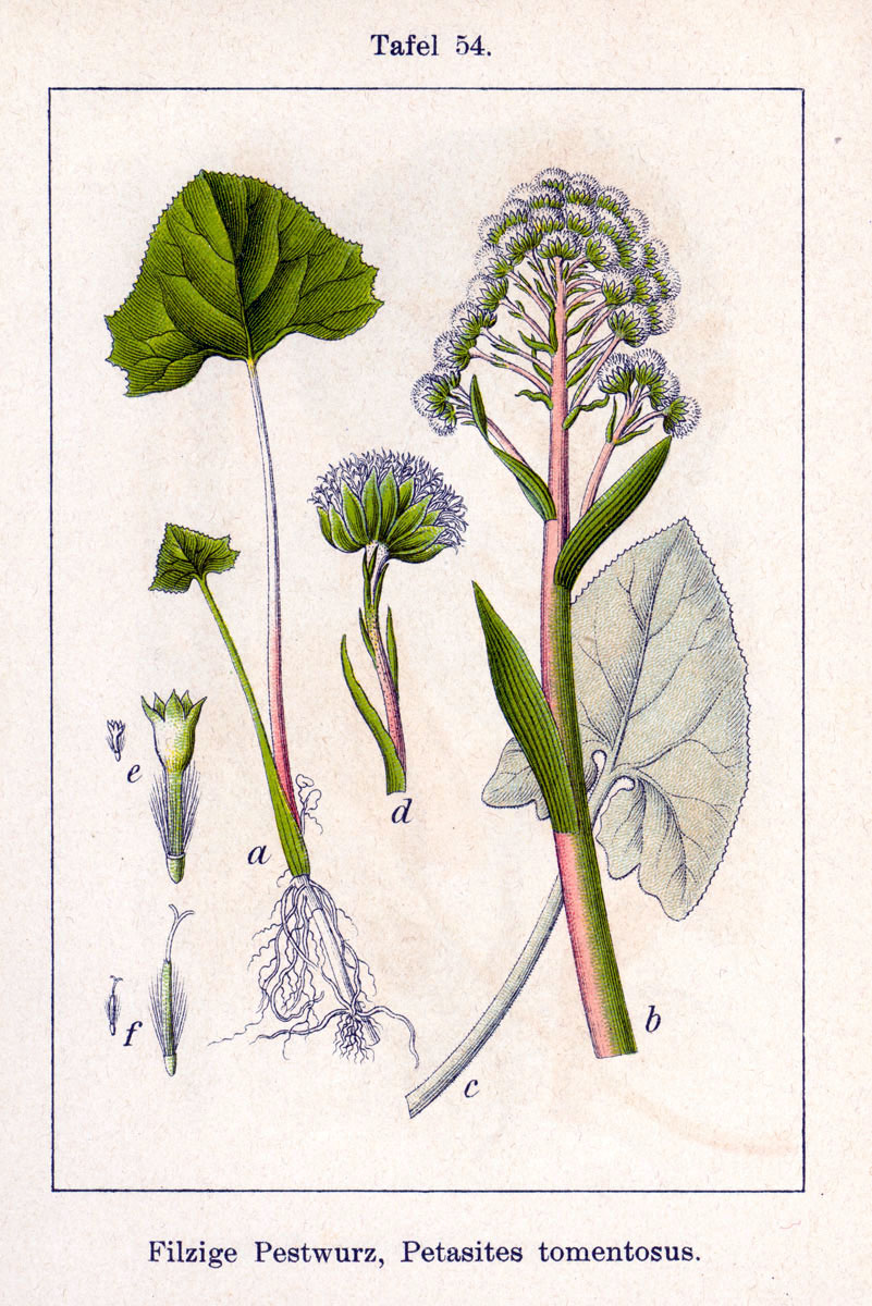 Petasites spurius (Retz.) Rchb., syn. Petasites tomentosus DC. Original Description Filzige Pestwurz, Petasites tomentosus